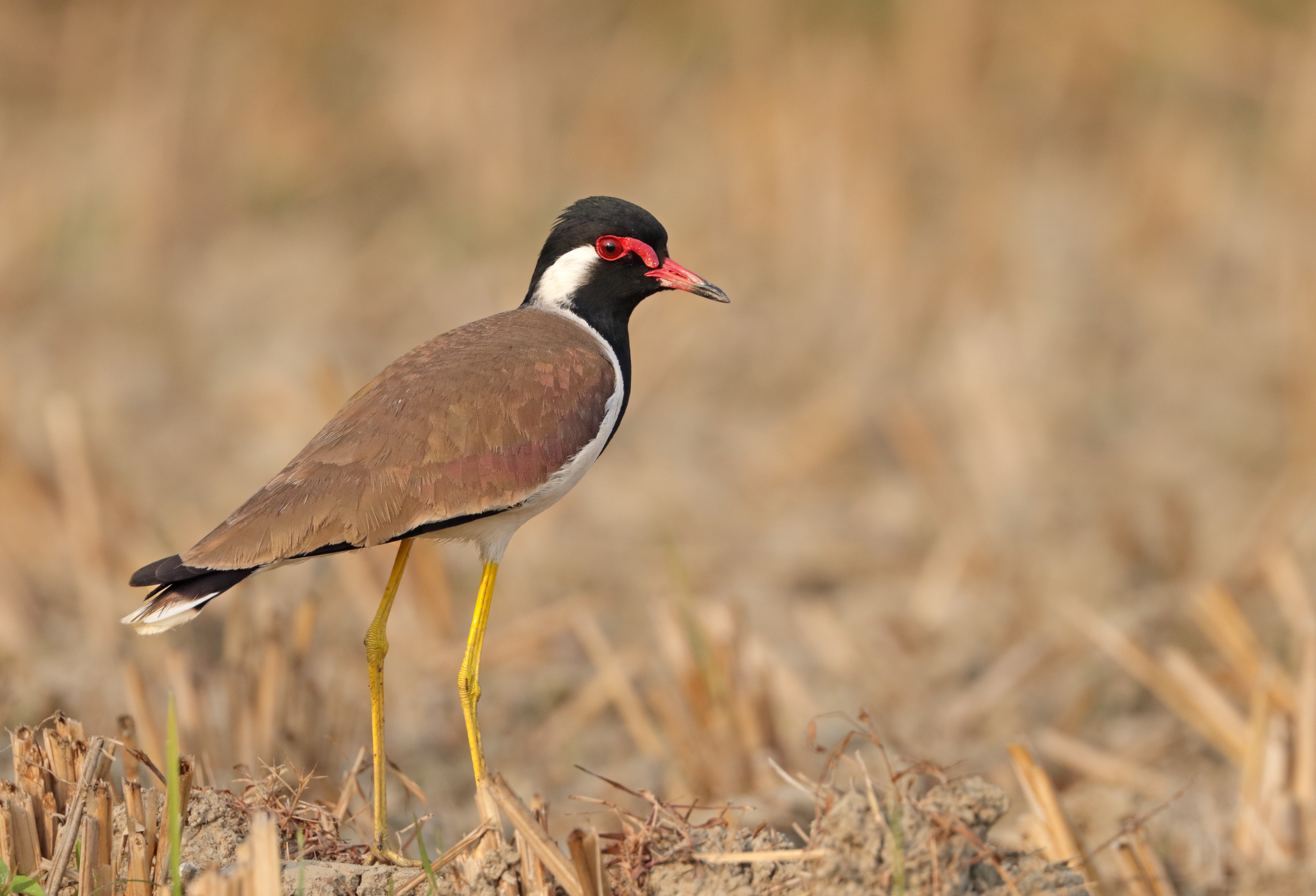 The red-wattled lapwing is an Asian lapwing or large plover, a wader in the family Charadriidae.